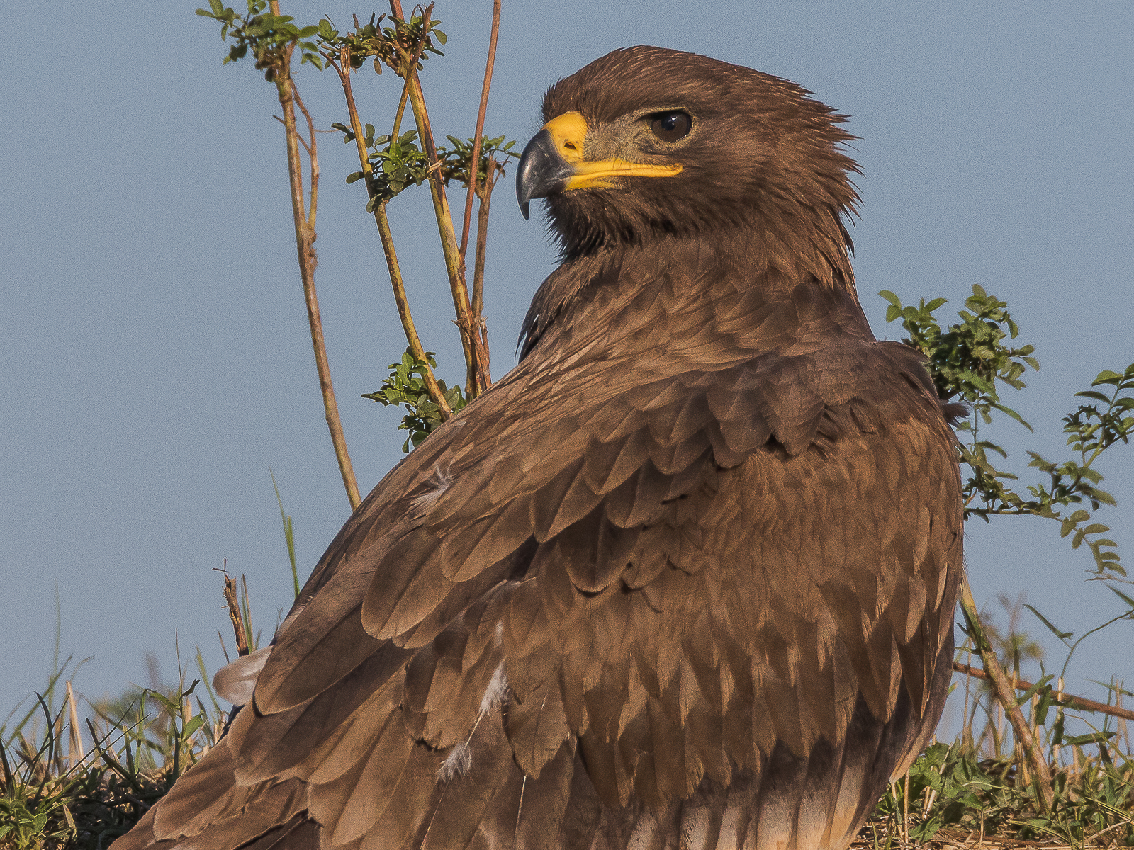 This is an image of the Biosphere Reserve or a Geopark: Astrakhan Nature Reserve